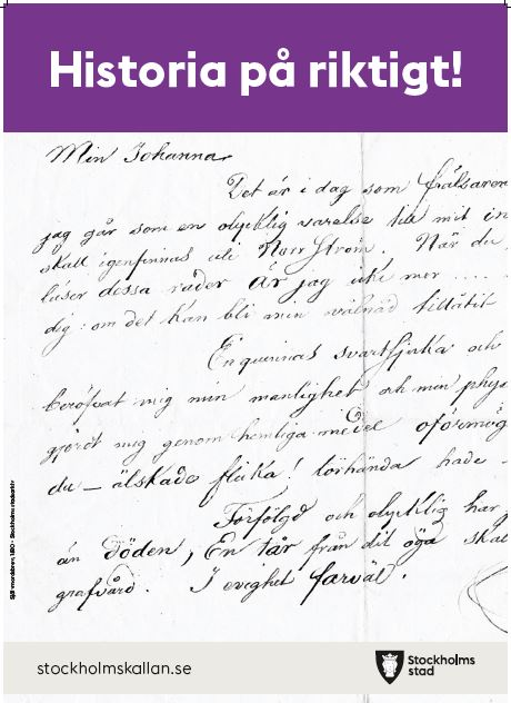 Poster for Stockholmskällan showing suiside letter in swedish, 1820